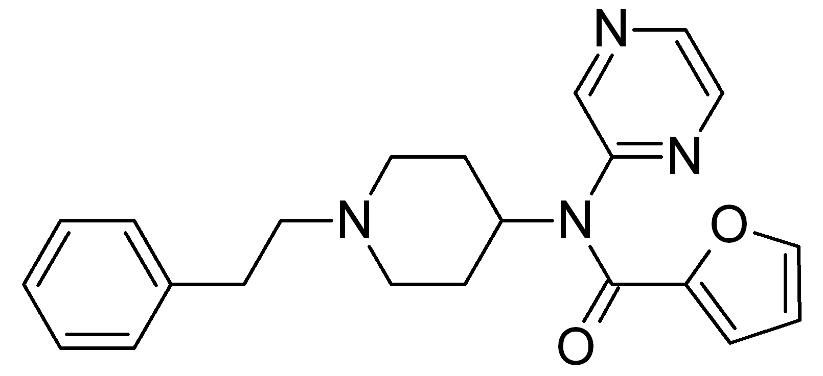 Chemical structure of Mirfentanil